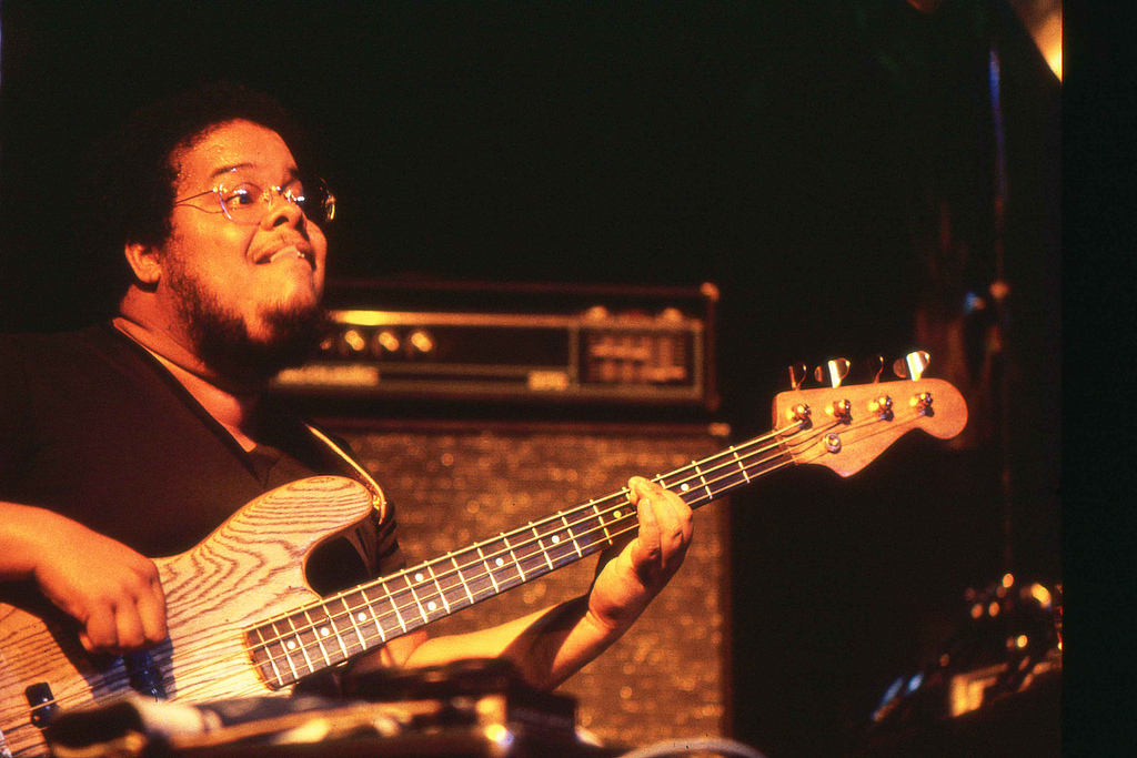 Jazz fusion bass guitarist Anthony Jackson touring the Netherlands with Al DiMeola